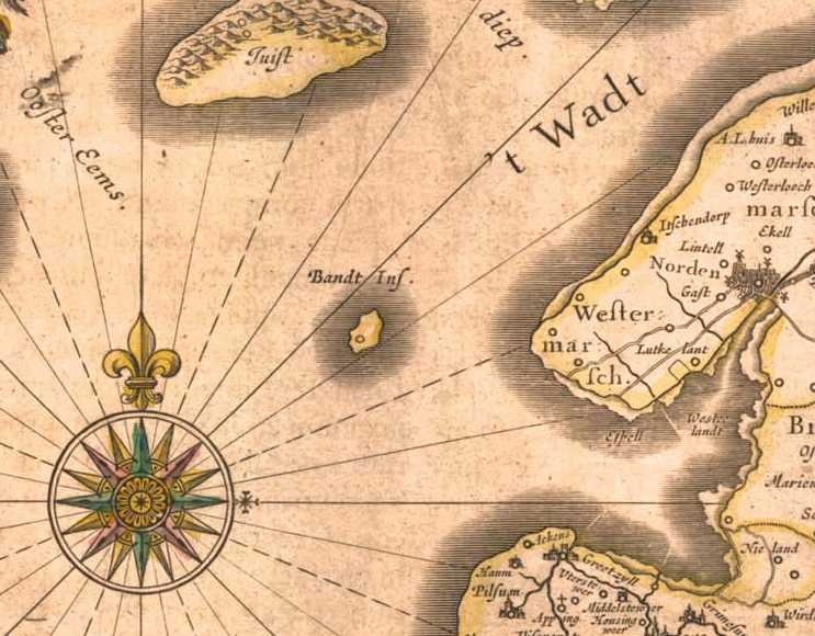 Bant Island on the Typus Frisiae Orientalis map of Ubbo Emmius.